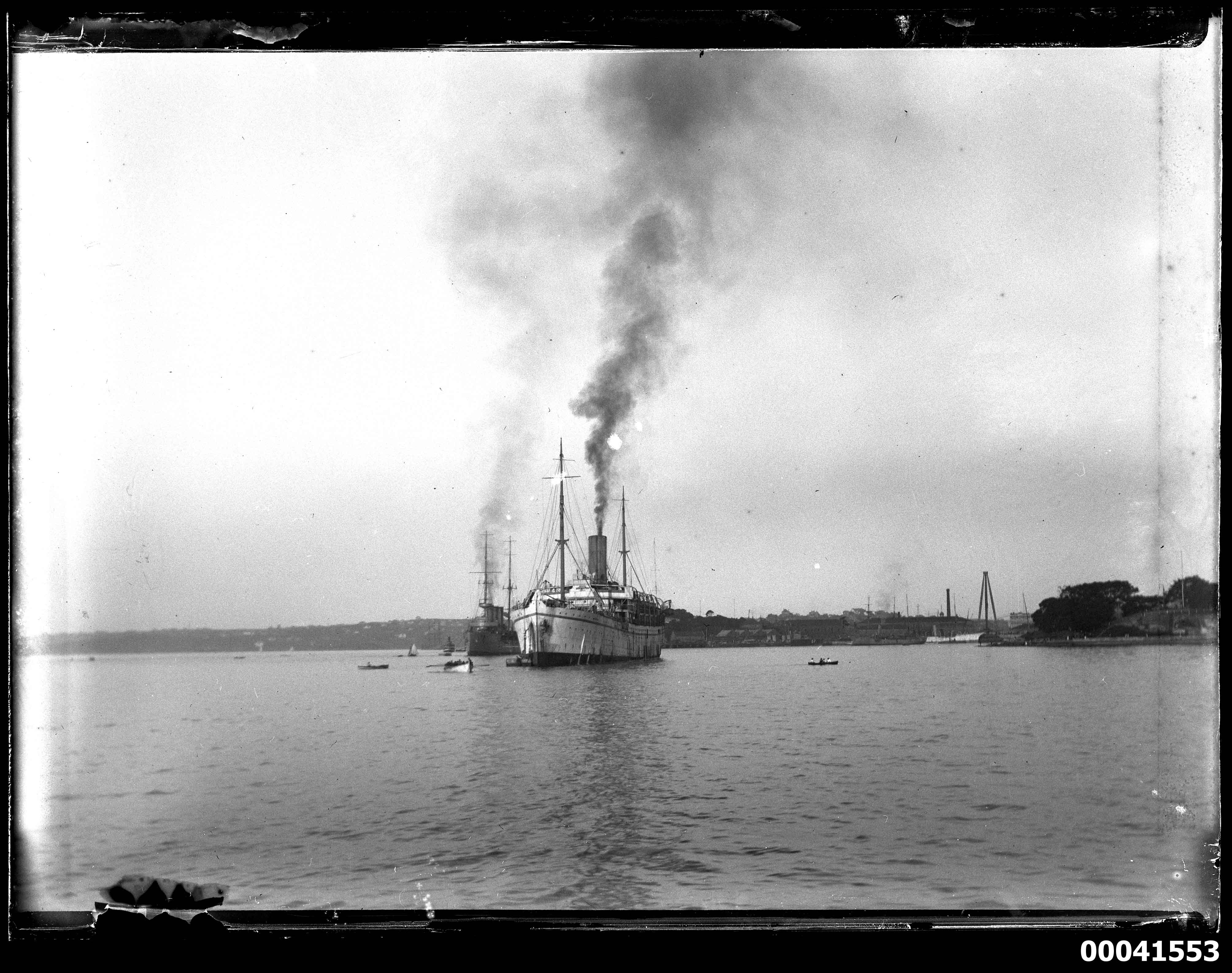 Frederick Wilkinson (1901 - 1975) migrated to Australia from England in 1911. While wokring various jobs in and around central Sydney, Wilkinson acquired a camera and began taking photographs of vessels and harbour scenes. Many of his images were used by commercial photographers for souvenir postcards. The ANMM undertakes research and accepts public comments that enhance the information we hold about images in our collection. This record has been updated accordingly. Photographer: Frederick Garner Wilkinson Object no. 00041553